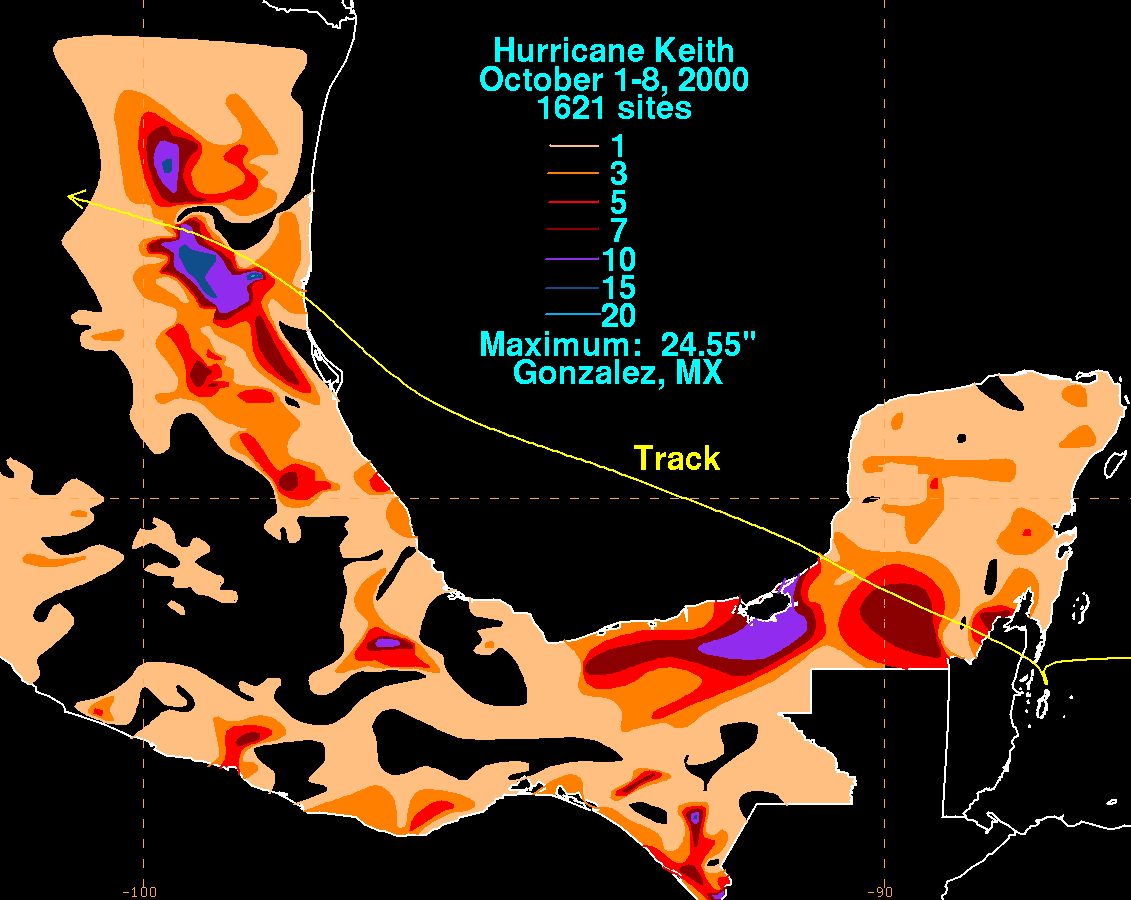 Storm total rainfall map of Hurricane Keith during October 2000.